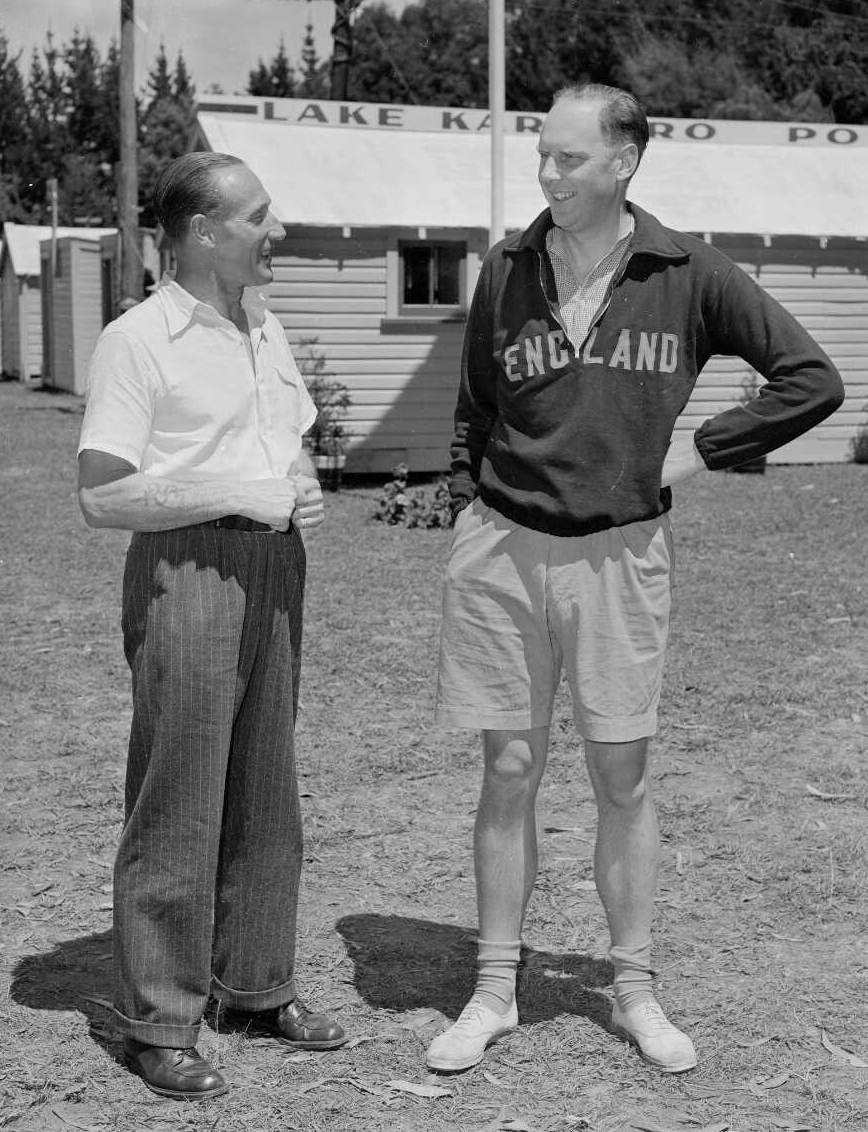 British oarsmen at the 1950 British Empire Games, coach of England's rowers J D Beresford (left) and competitor R D Burneil, standing outside the Lake Karapiro post office. Photograph taken circa 31 January 1950 by an Evening Post photographer.